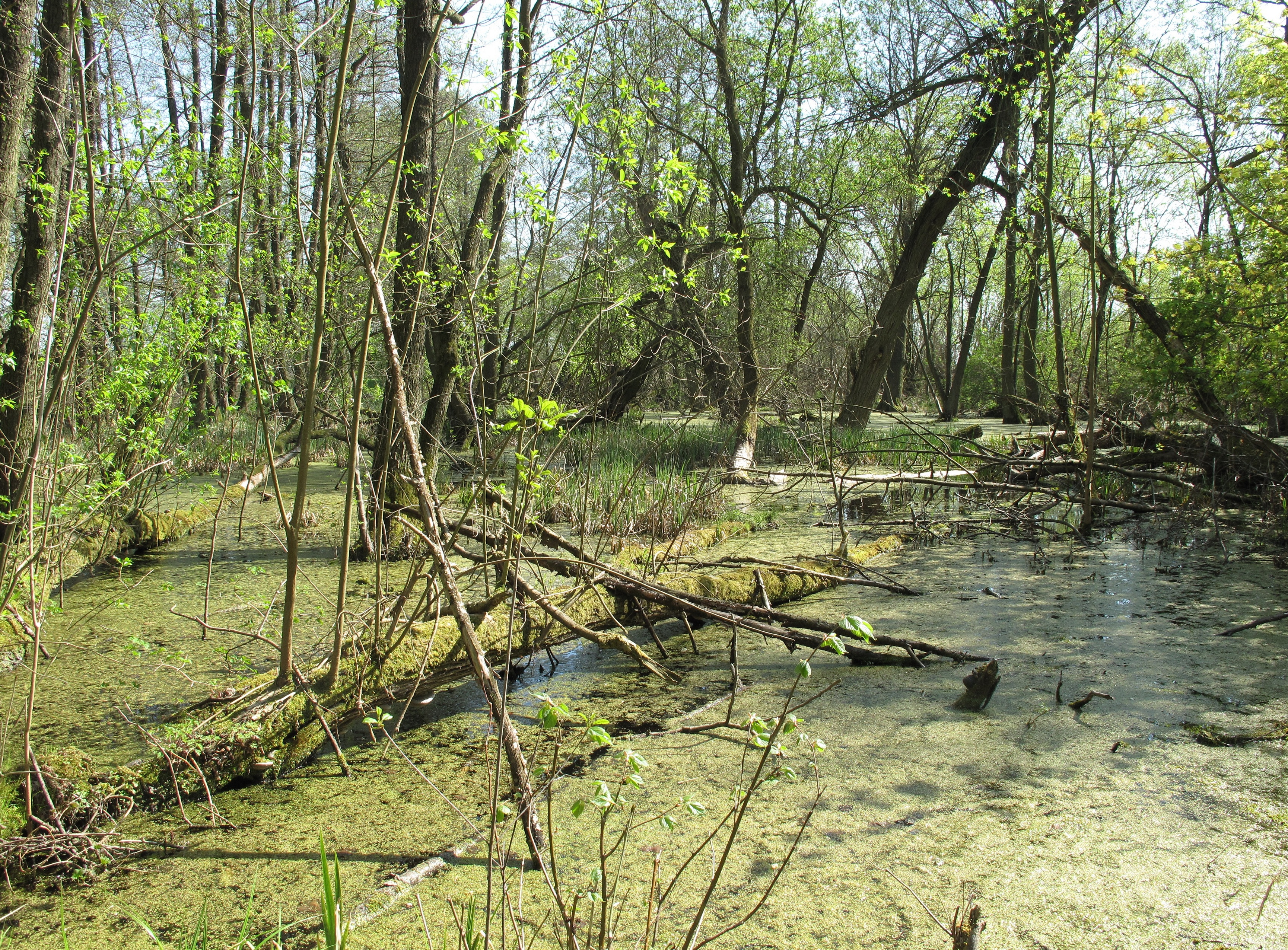 Remains of a low moor-area in the west of the Kietzer See/Stobber in the Europäisches Vogelschutzgebiet Altfriedländer Teich- und Seengebiet, a European bird protection area (SPA) around Altfriedland, a village of the municipality Neuhardenberg in the District Märkisch-Oderland, Brandenburg, Germany.